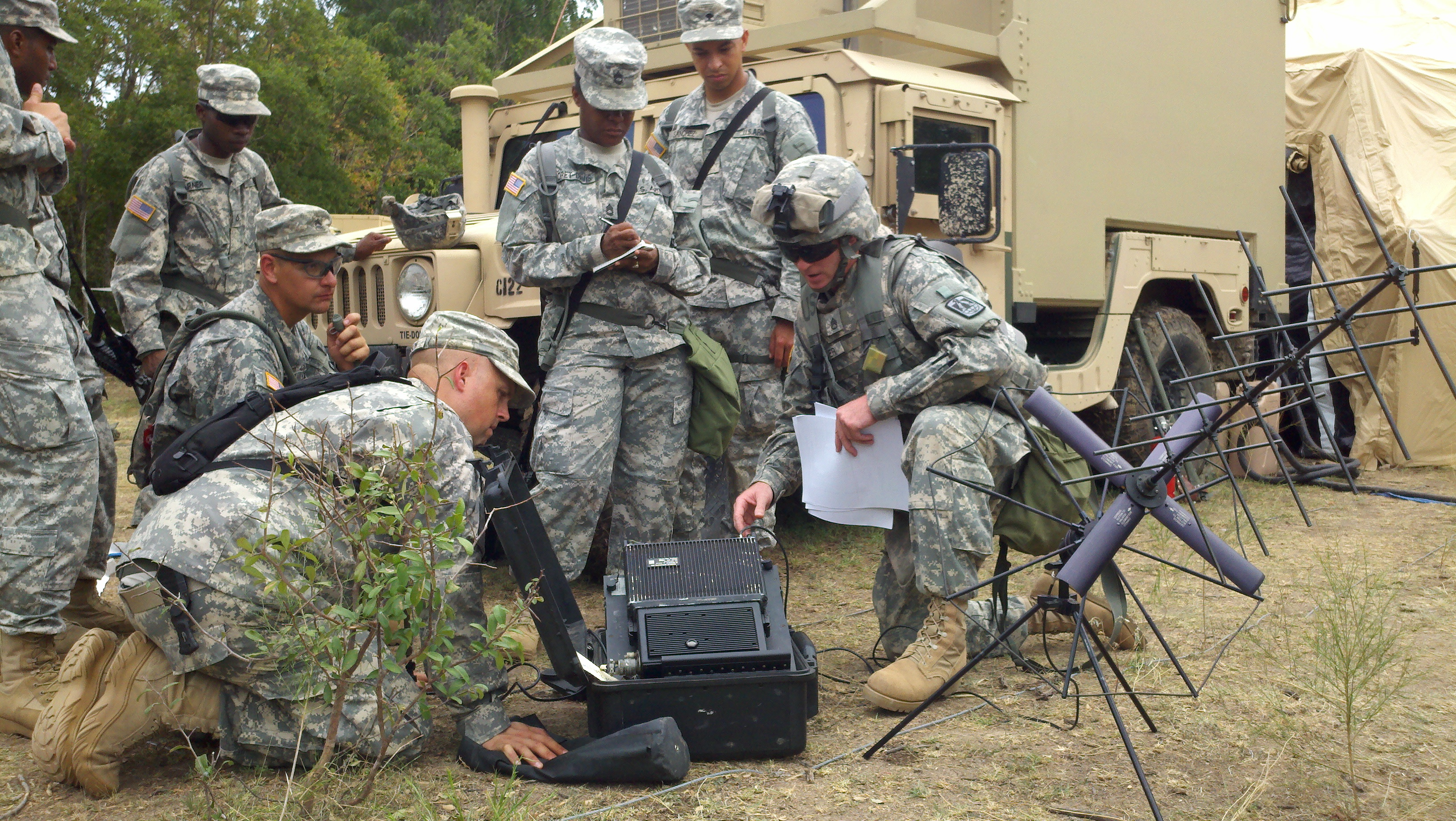 US Army photo by Spc. Danielle Ferrer Staff Sgt. Kevin Giver, 11th Signal Brigade satellite communications operations noncommissioned officer, conducts 'field expedient' tactical signal channel satellite terminal training for the 62nd Expeditionary Signal Battallion tactical operations center, radio telephone operator and select personnel during the 62nd ESB field training exercise, Aug. 13-21. The FTX took place at Fort Hood, Texas, and involved about 40 Soldiers from Fort Huachuca. Originally posted here.